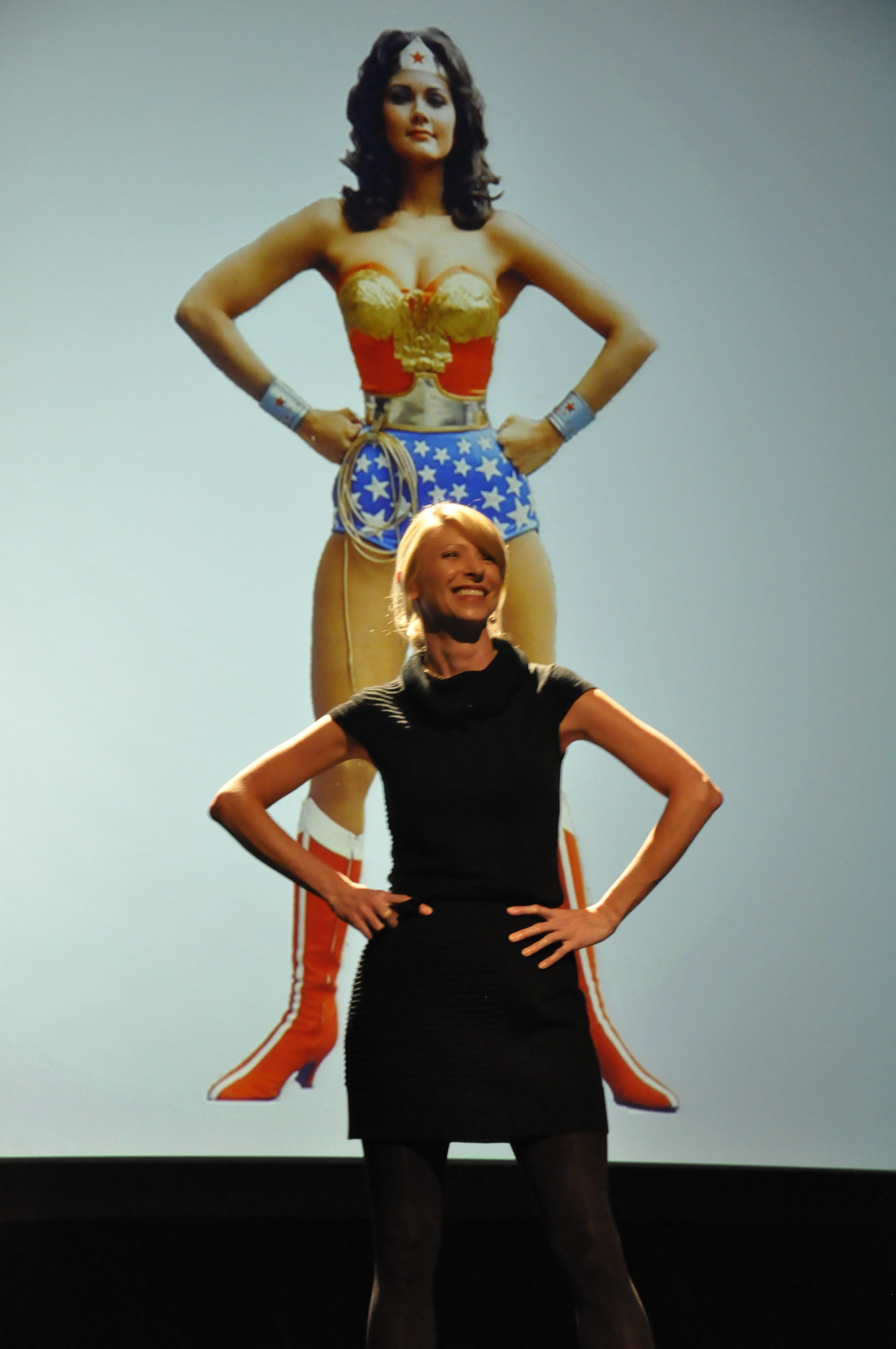 Amy Cuddy demonstrating her theory of "power posing", that assuming a posture associated with authority alters hormone levels in the body. The theory is now generally considered to be discredited.